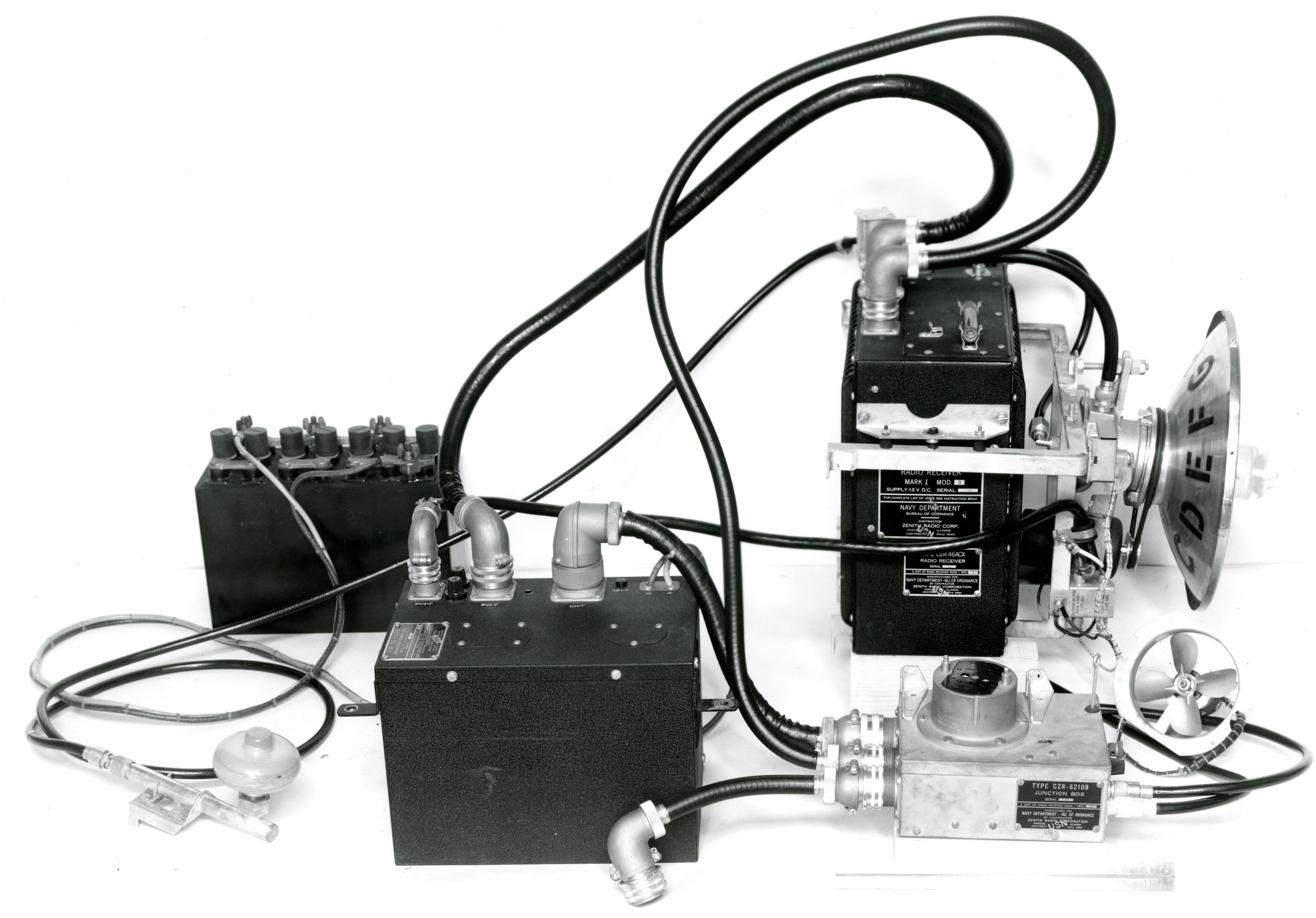 Radar equipment carried by the "Pelican" - it carried only receiving radio equipment, the transmitter carried instead on the "mother" plane.